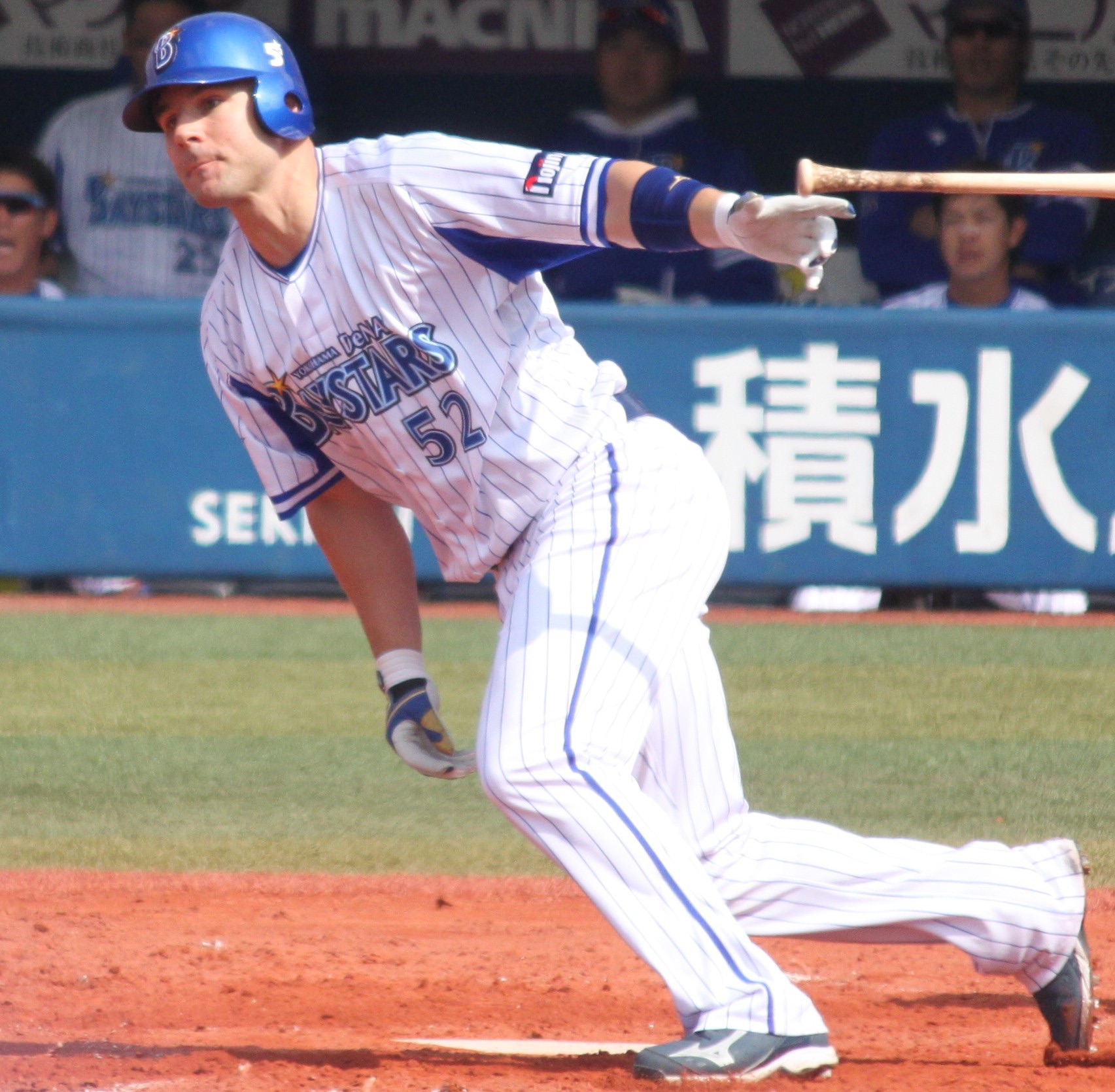 Jamie Romak, infielder of the Yokohama DeNA BayStars, at Yokohama Stadium